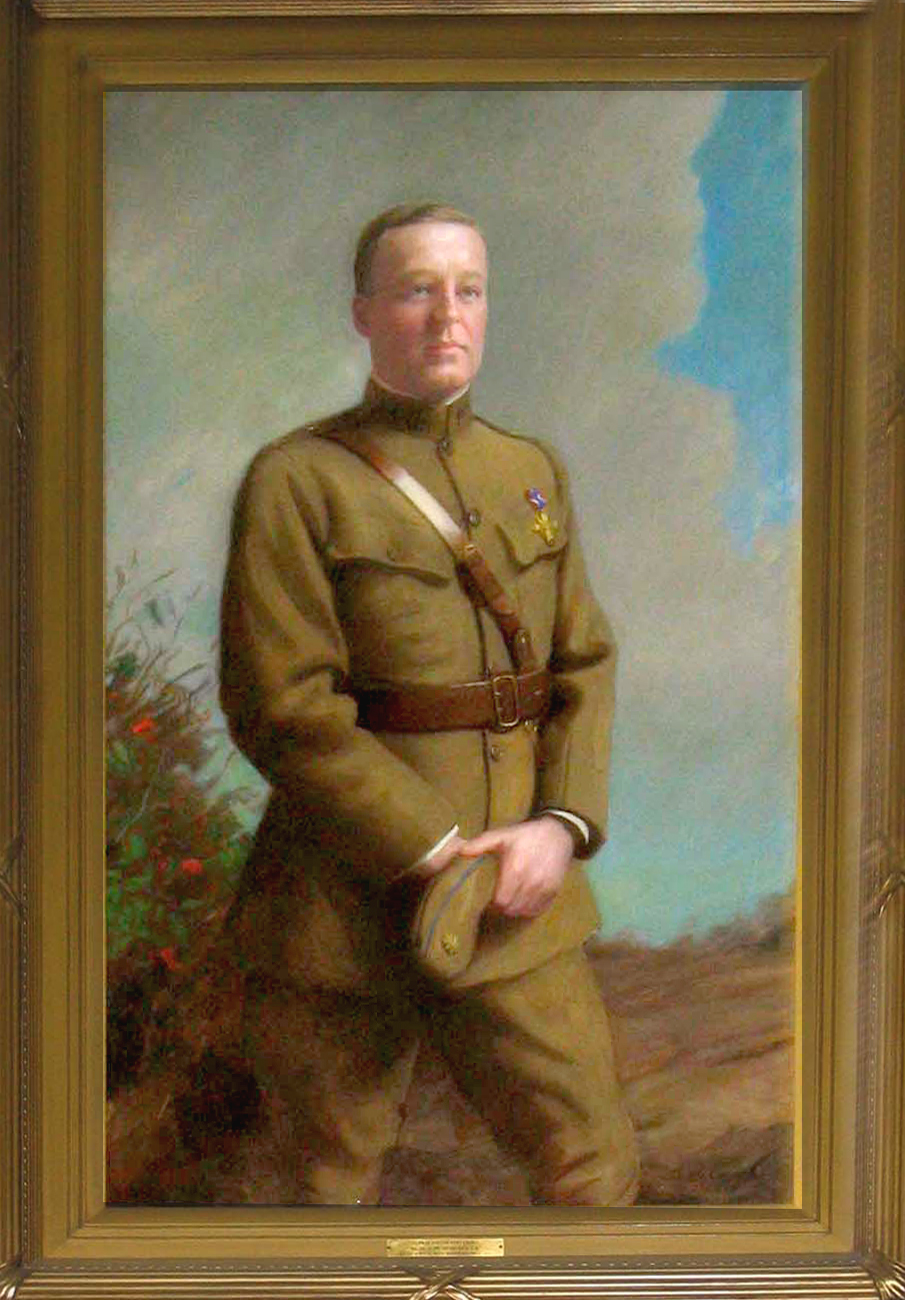 Painting of Major German HH Emory, killed Nov 1, 1918 in WW1